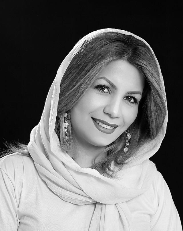 Sepide Jandaghi at 2017